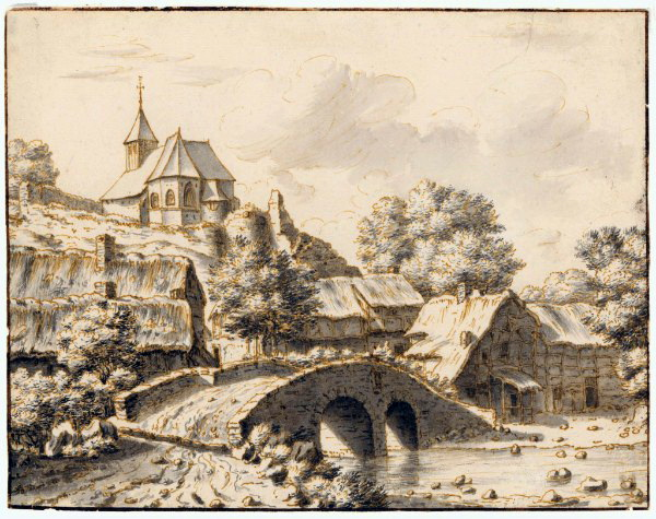 View of Dalhem (now in Belgium, between Liège and Maastricht). Pen drawing by the military engineer Valentijn Klotz, ca 1670.